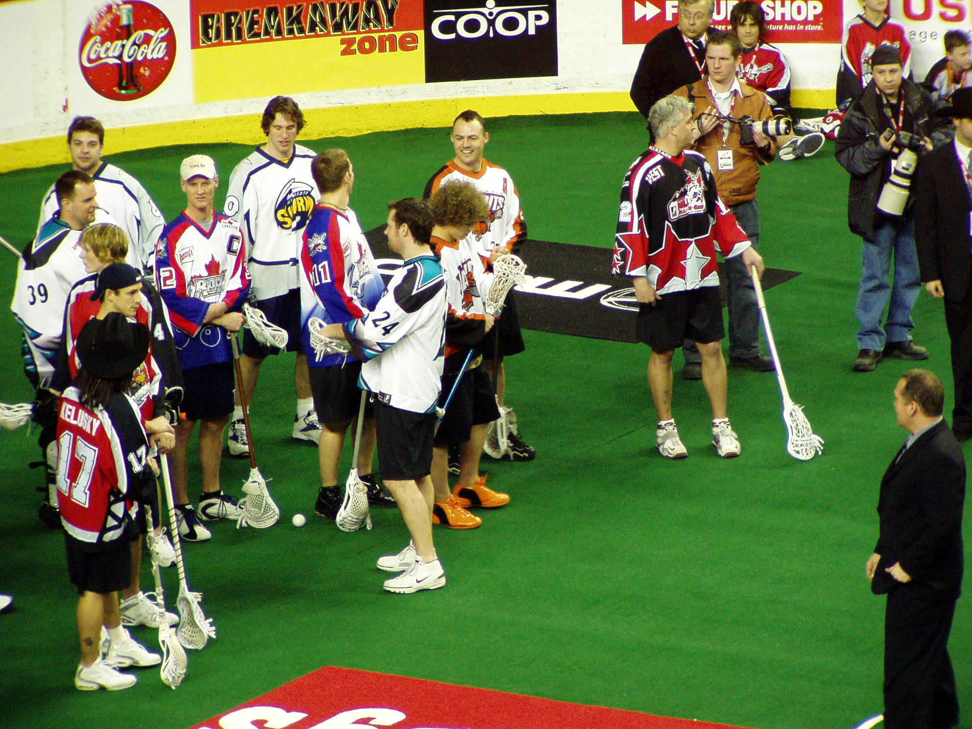 Lacrosse All Stars waiting for the skills competition at the 2005 National Lacrosse League All-Star Game, February 26, 2005, Calgary.